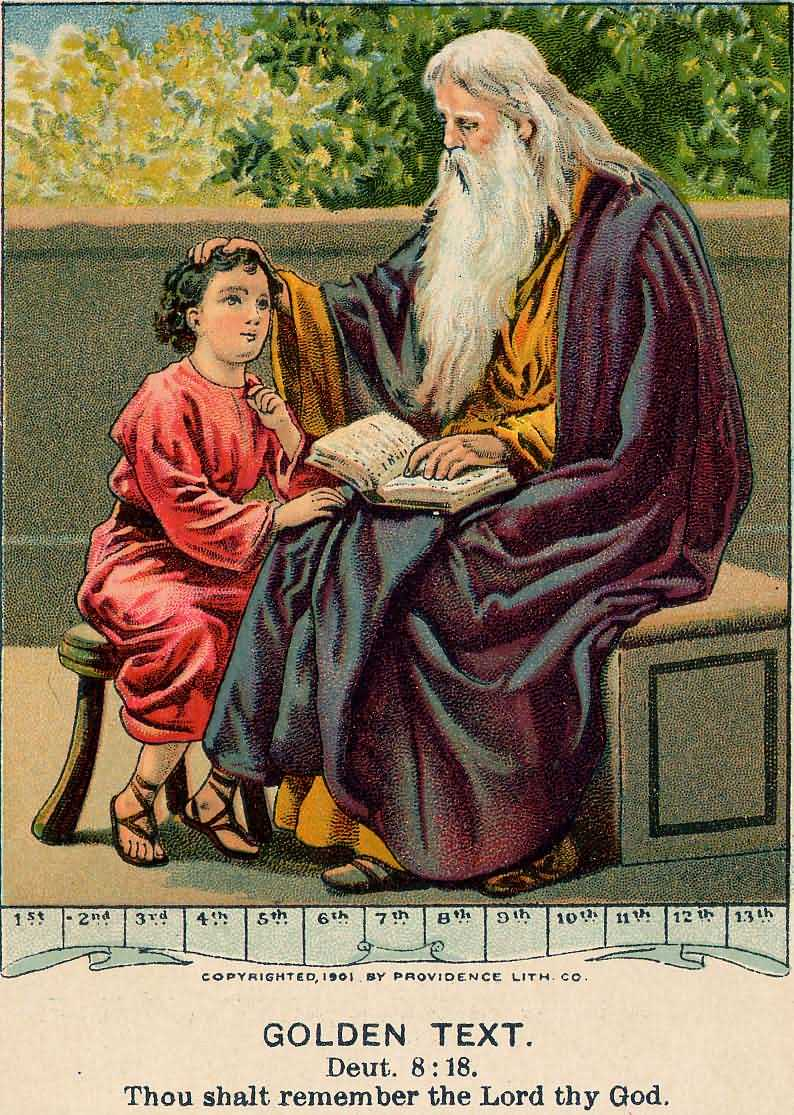 Deuteronomy 8:18, Thou shalt remember the Lord thy God, 1901 Bible card published by the Providence Lithograph Company